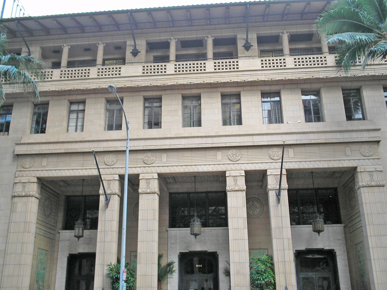 Front of Alexander & Baldwin building, Honolulu, Hawaii, built 1929, architects C.W. Dickey and Hart Wood